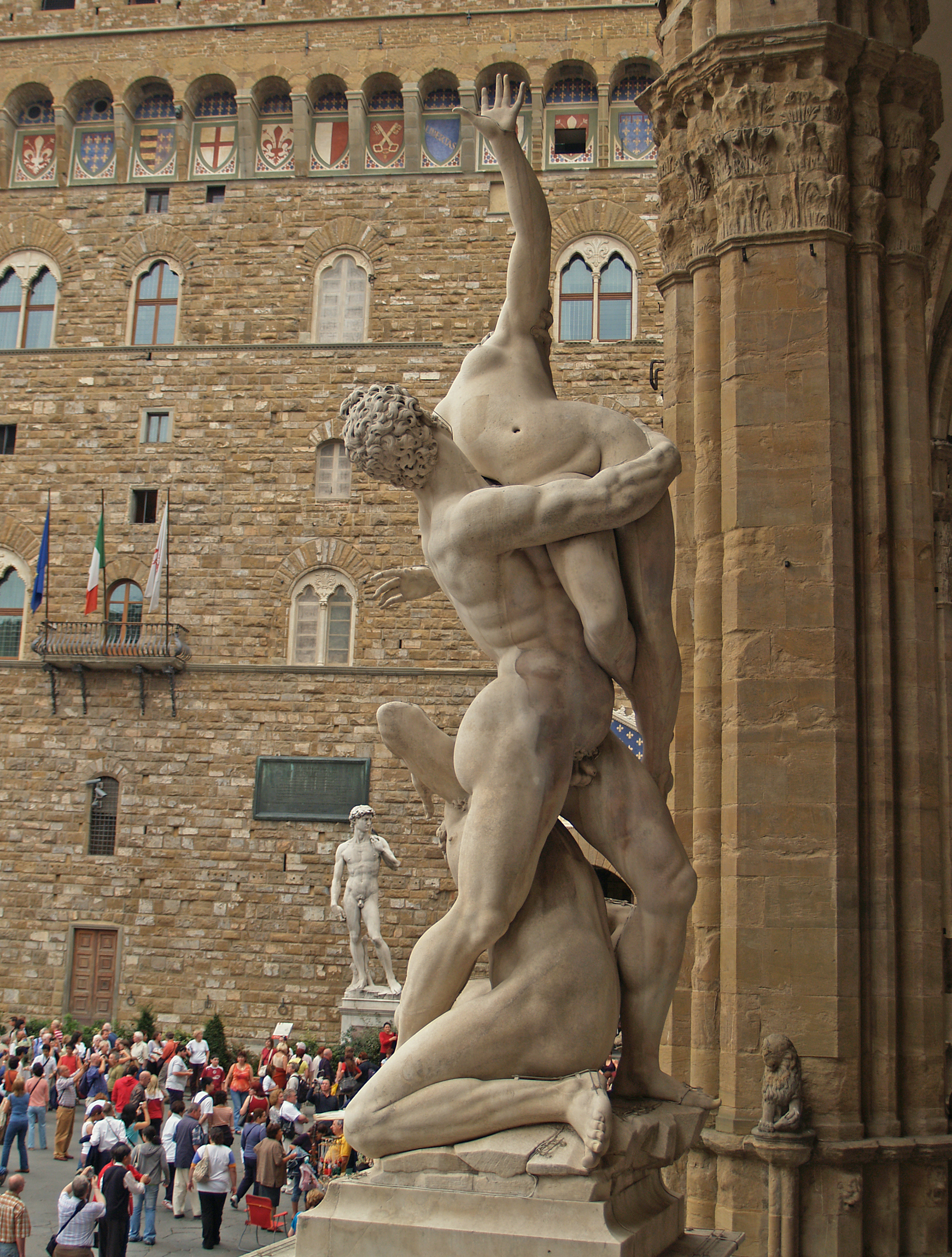 Statue Rape of the Sabine Women by Giambologna in Florence, Loggia dei Lanzi, Palazzo Vecchio in background